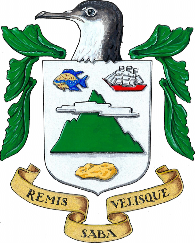 Coat of arms of Saba (Netherlands)